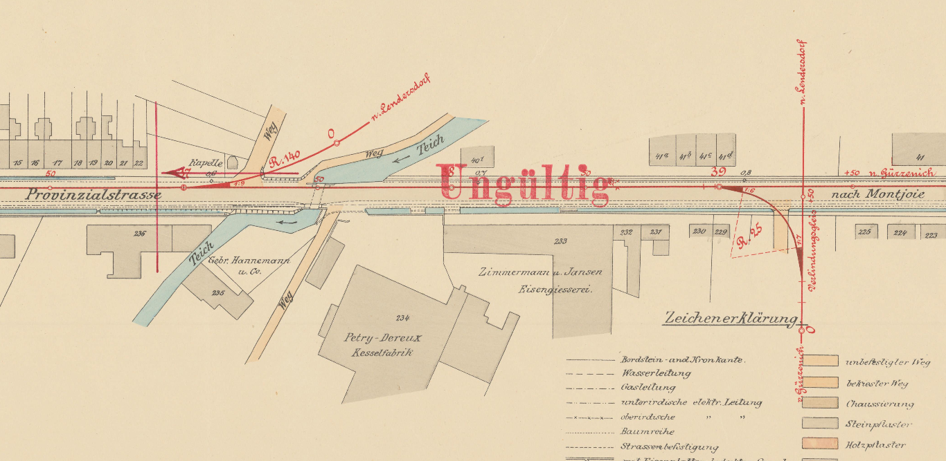 First plan of Rölsdorf Dreieck junction 1906